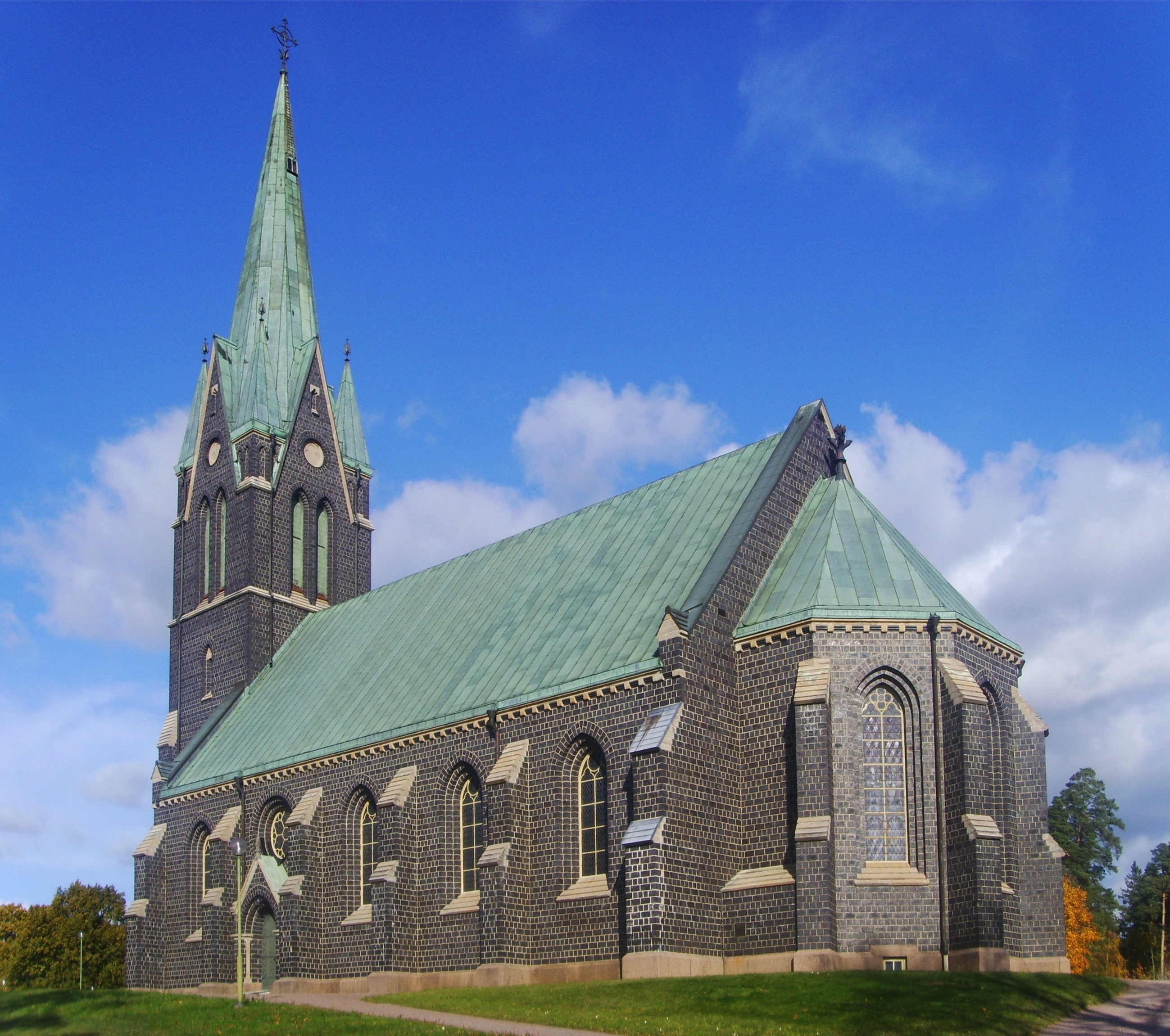 The church in Boxholm, Östergötland, Sweden.